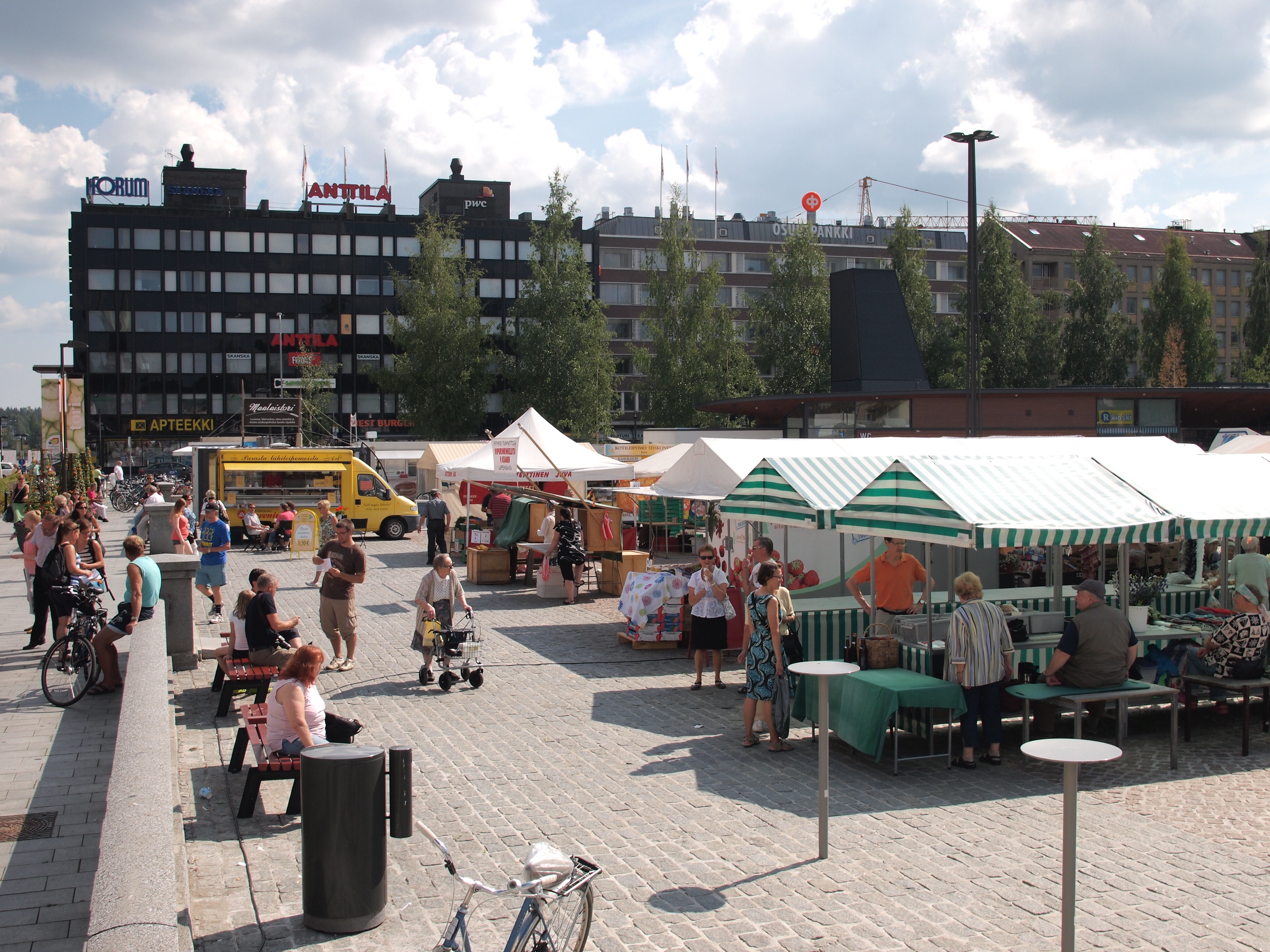 Market square of Mikkeli in August 2013.